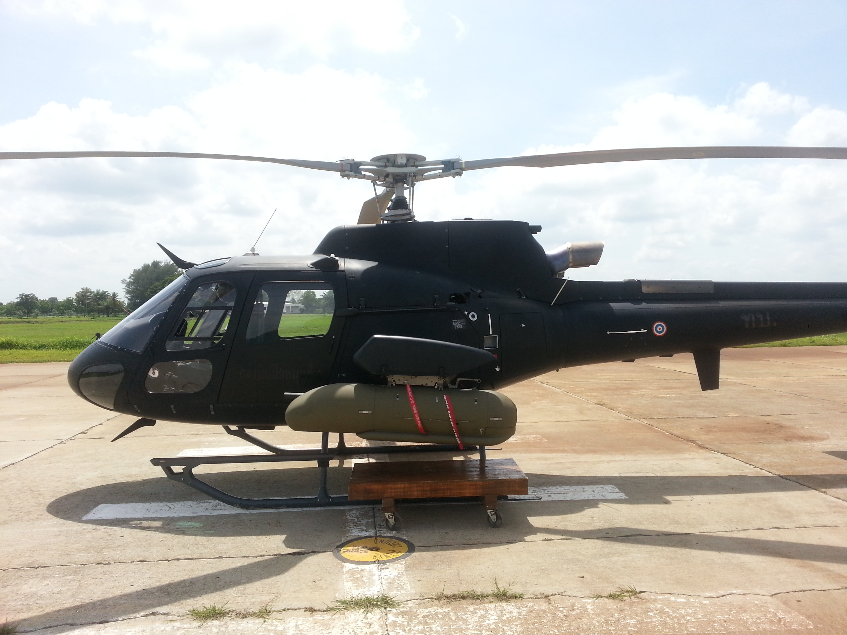 Royal Thai Army Aviation Center AS550 with FN HMP